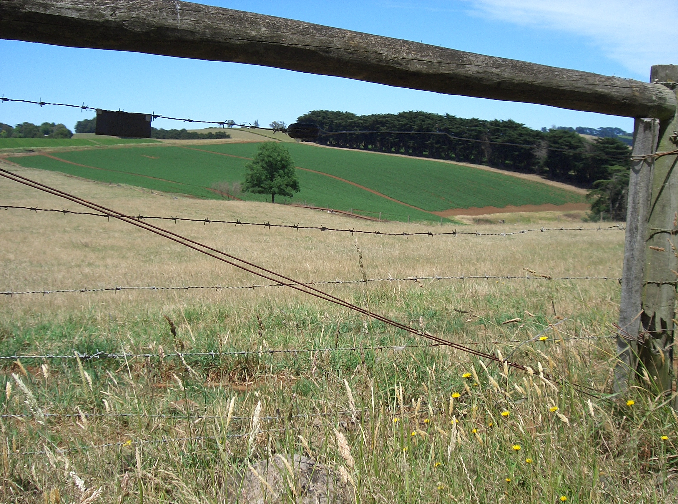 A potato field (dark green) visible through a fence at Thorpdale, Victoria. Thordpale is a small country town but is famous for its potatoes which are eaten throughout Australia and also exported overseas.